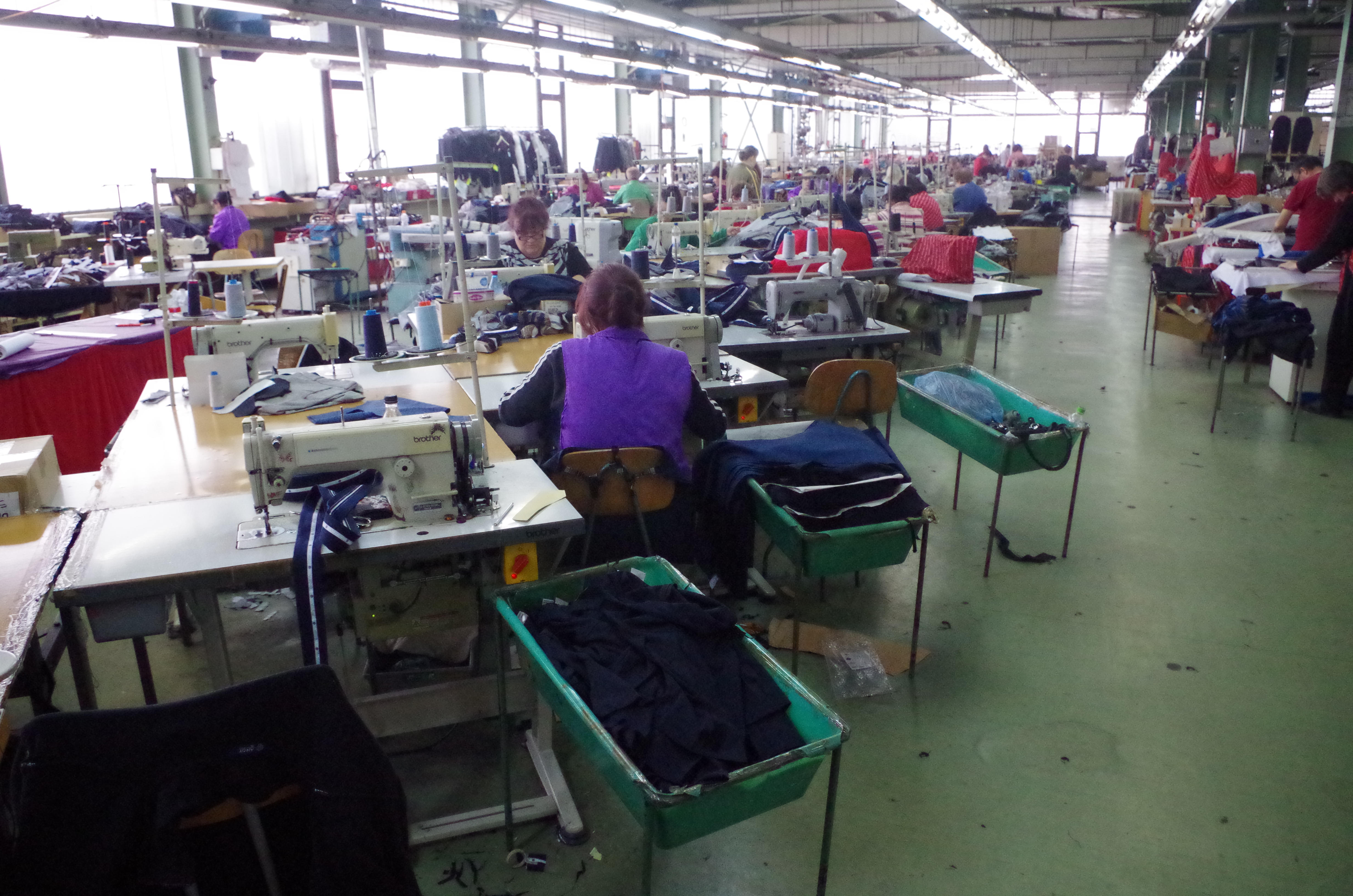 Textile Industry plant of the "Edinstvo" Factory in Strumica, Macedonia